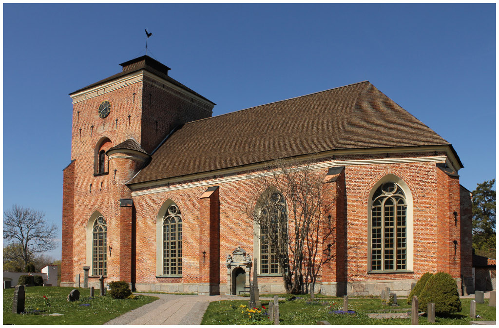 Tyresö church, Tyresö municipality, Sweden